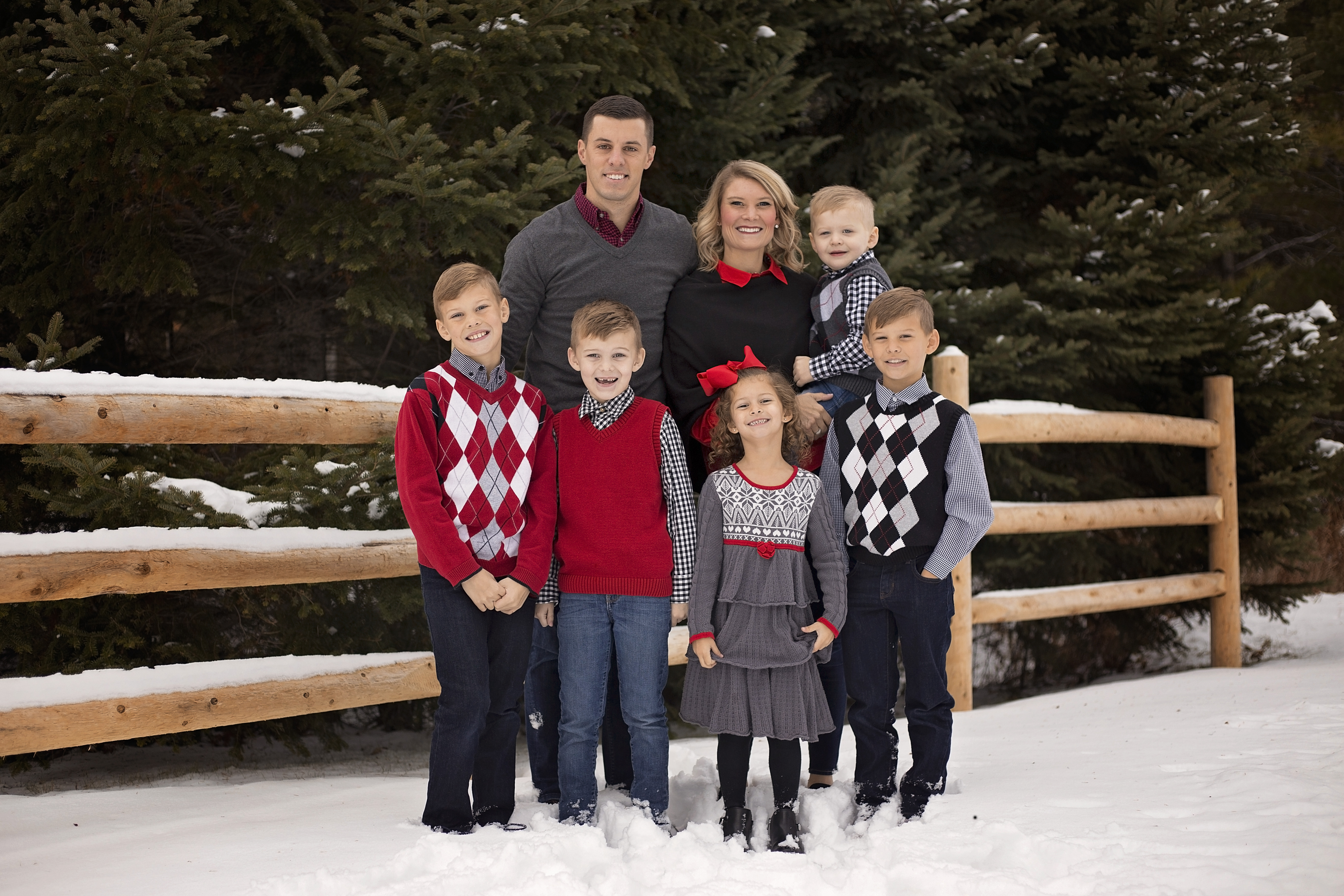 Family photo, 2019